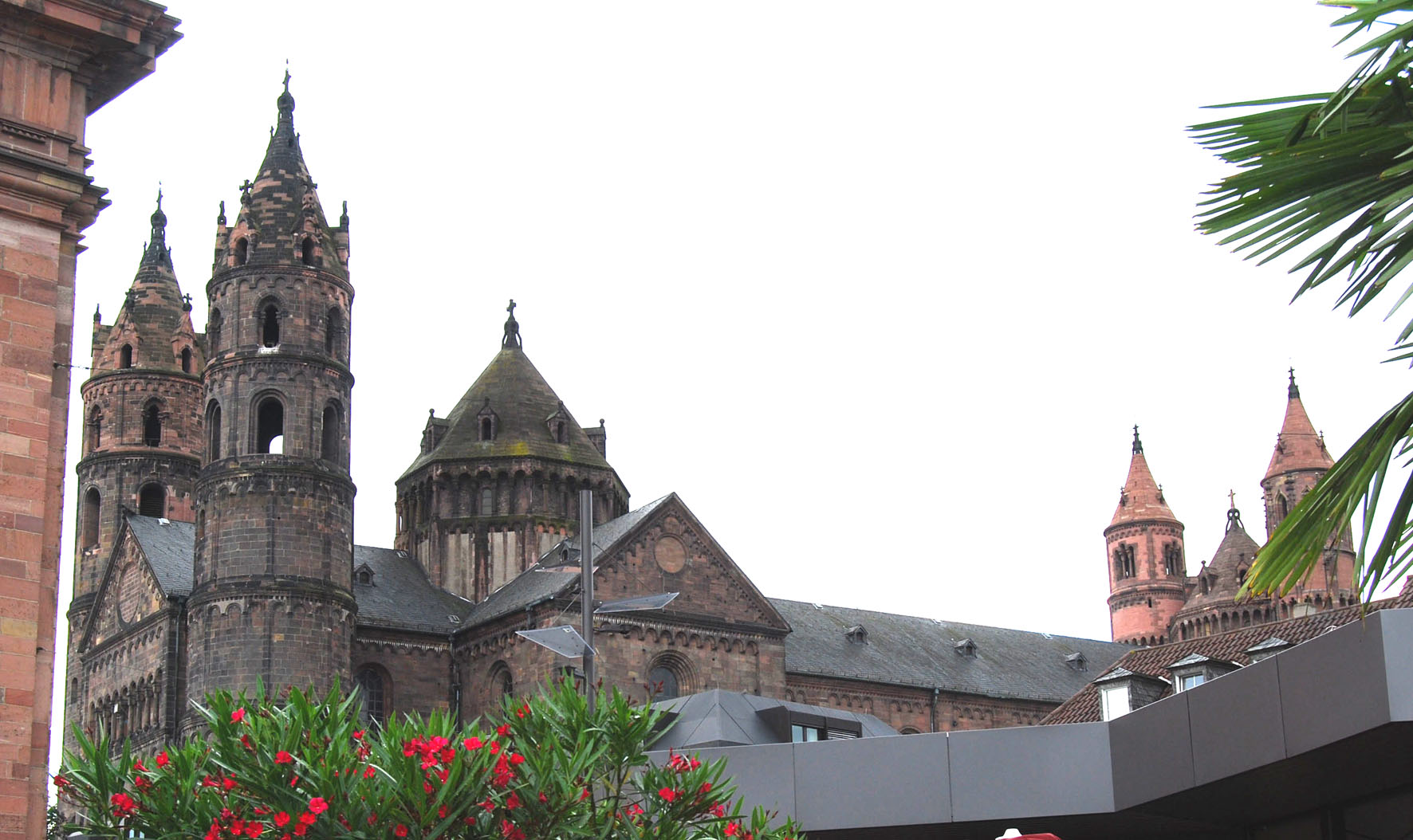 St Peter's Cathedral in Worms, Germany - the six towers